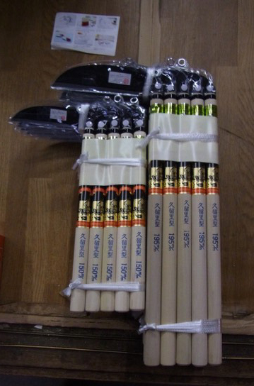 Shinshu sickles for distribution, regular